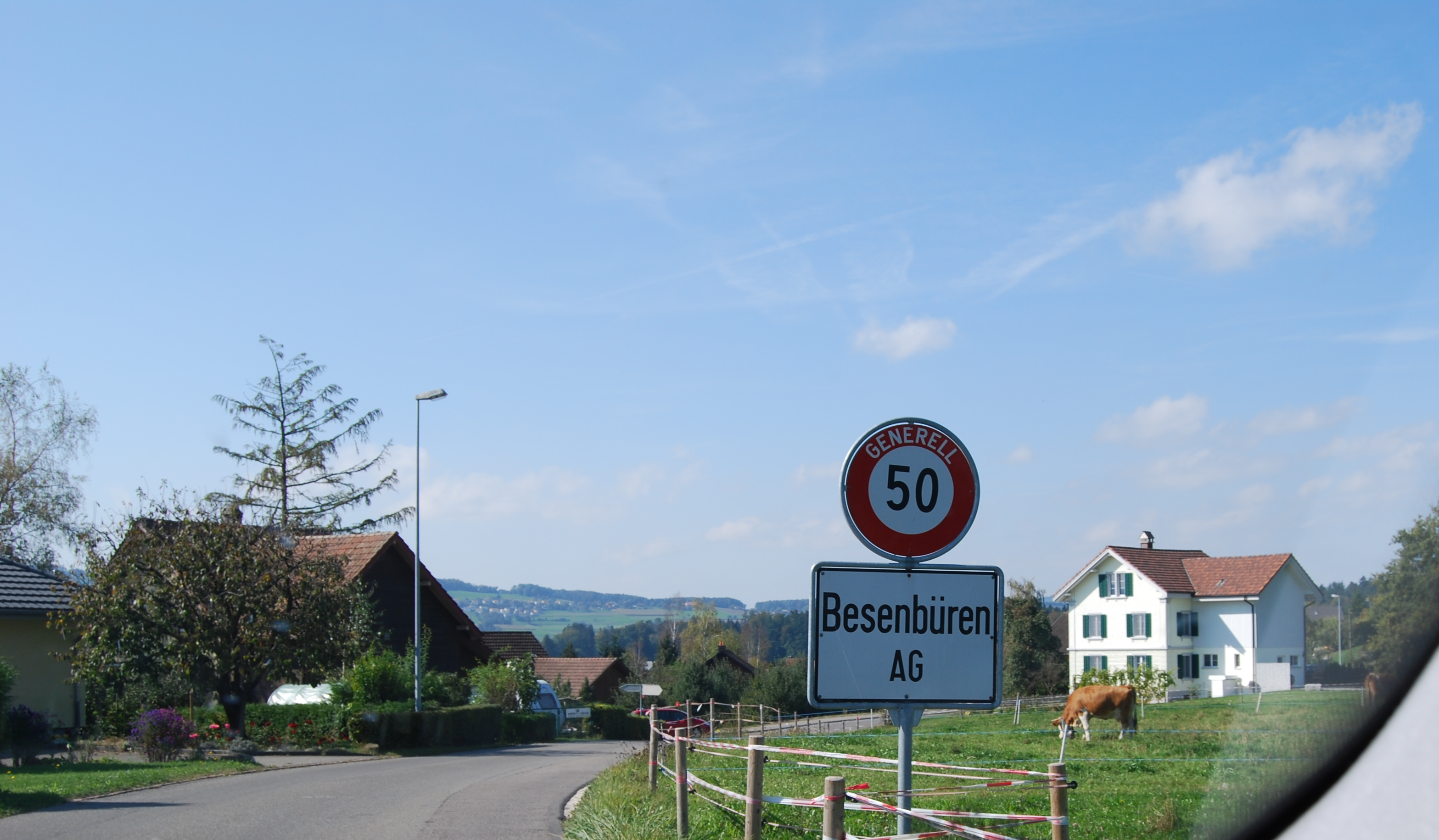 Besenbüren, canton of Aargau, SwitzerlandEsperanto: Besenbüren, Kantono Argovio, Svislando